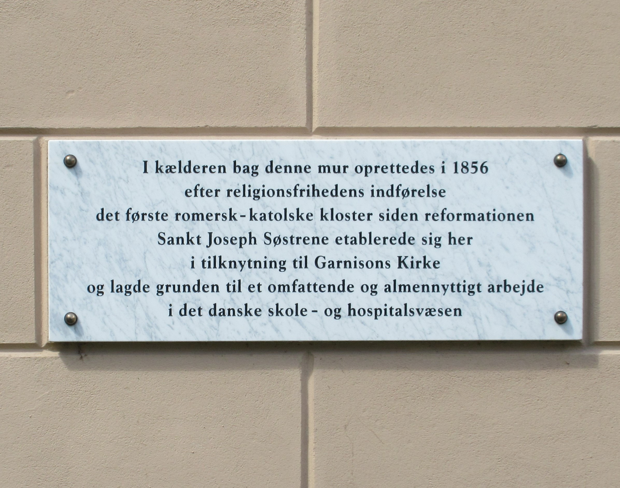 A commemorative plaque on Snakt Annæ Plads 2 in Copenhagen that commemorates four sisters of Sanit Joseph who came to Copenhagen in 1856 and initially stayed in the celler.